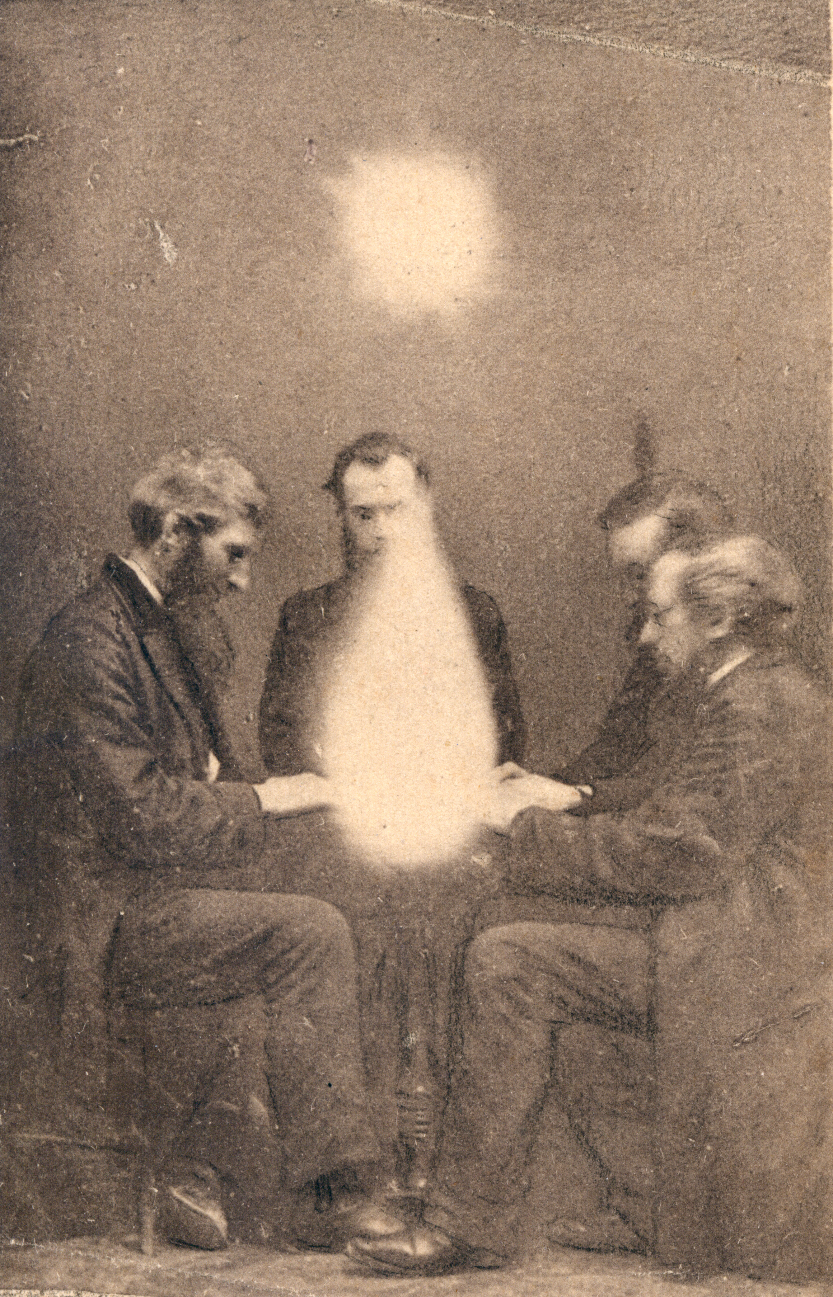 Séance conducted by John Beattie, Bristol, England, 1872 from the Eugène Rochas Papers held at the American Philosophical Society Library.